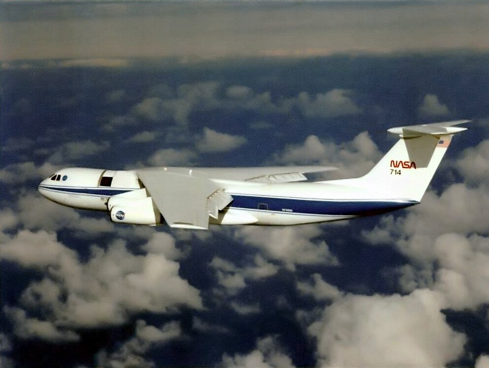 Kuiper Airborn Observatory in flight from .